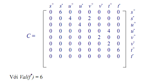 sau ma trận thay đổi